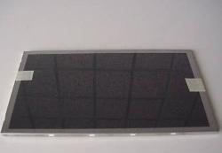 Lanix LT10.1 Multiuse high definition LED display unintegrated with any system.